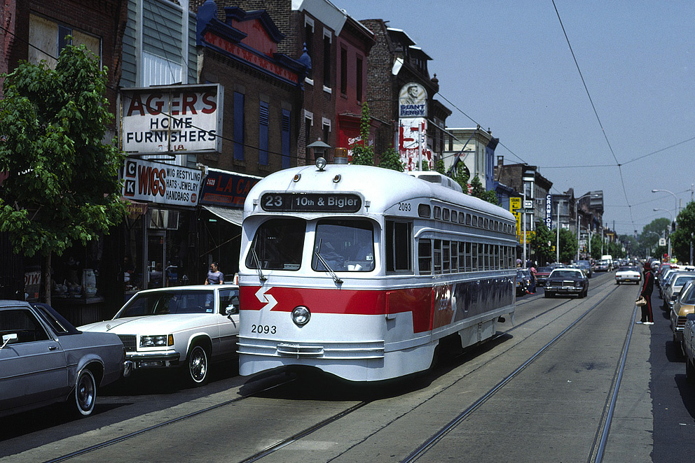 Philadelphia PCC-type streetcar/trolley car 2093 on Germantown Avenue in April 1985